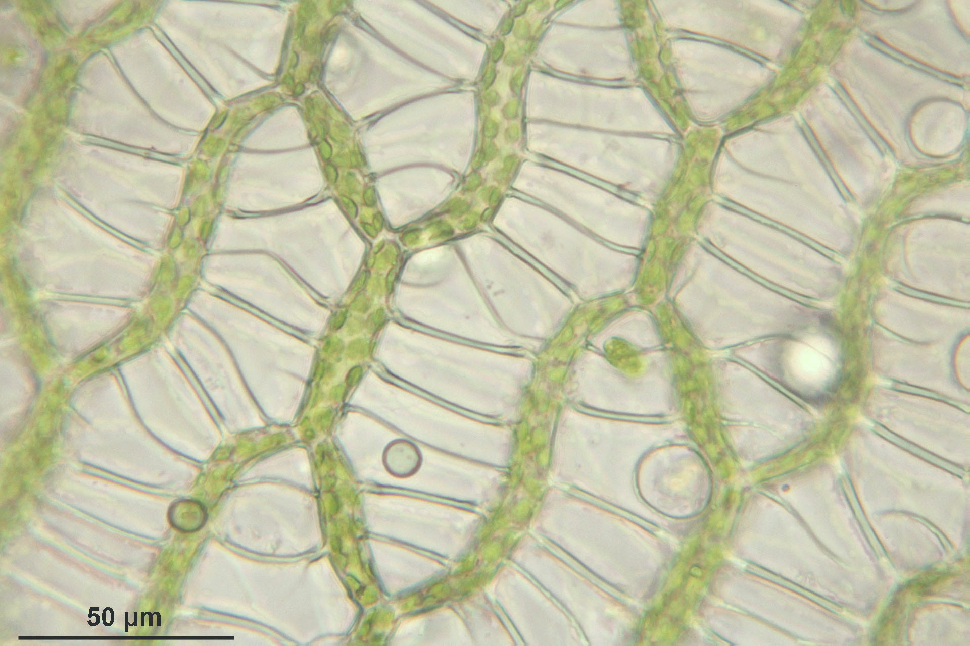 Sphagnum palustre